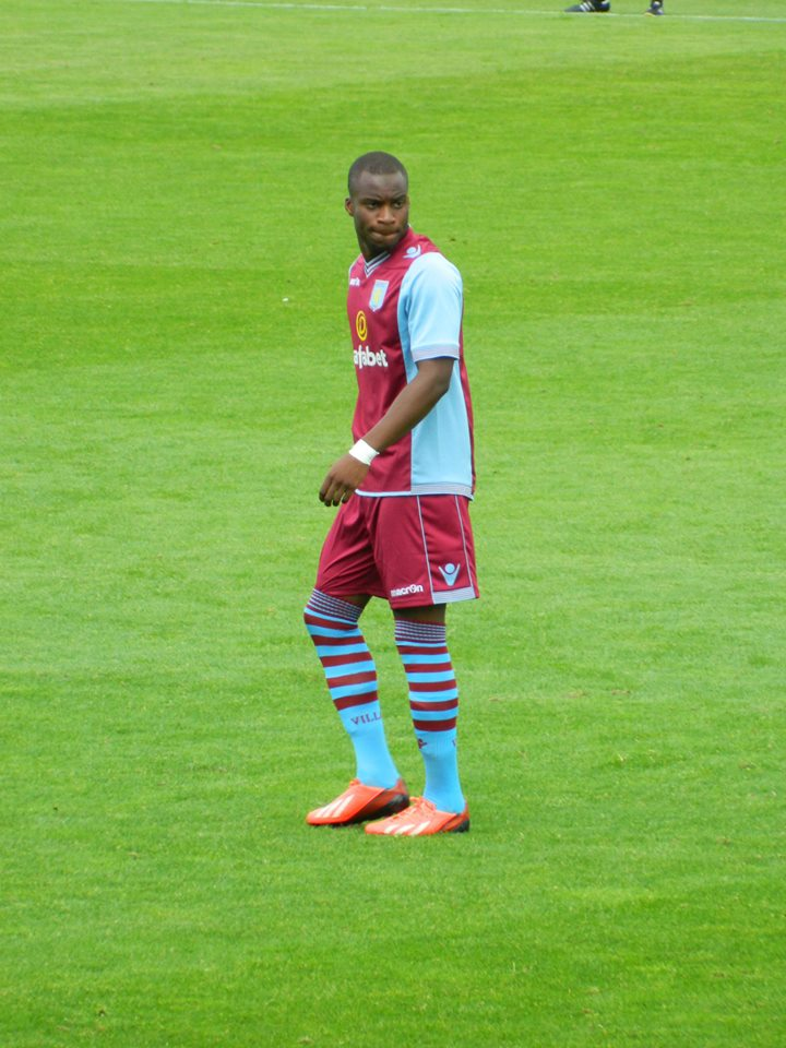 Yacouba Sylla playing for Aston Villa against Shamrock Rovers. 04/08/2013